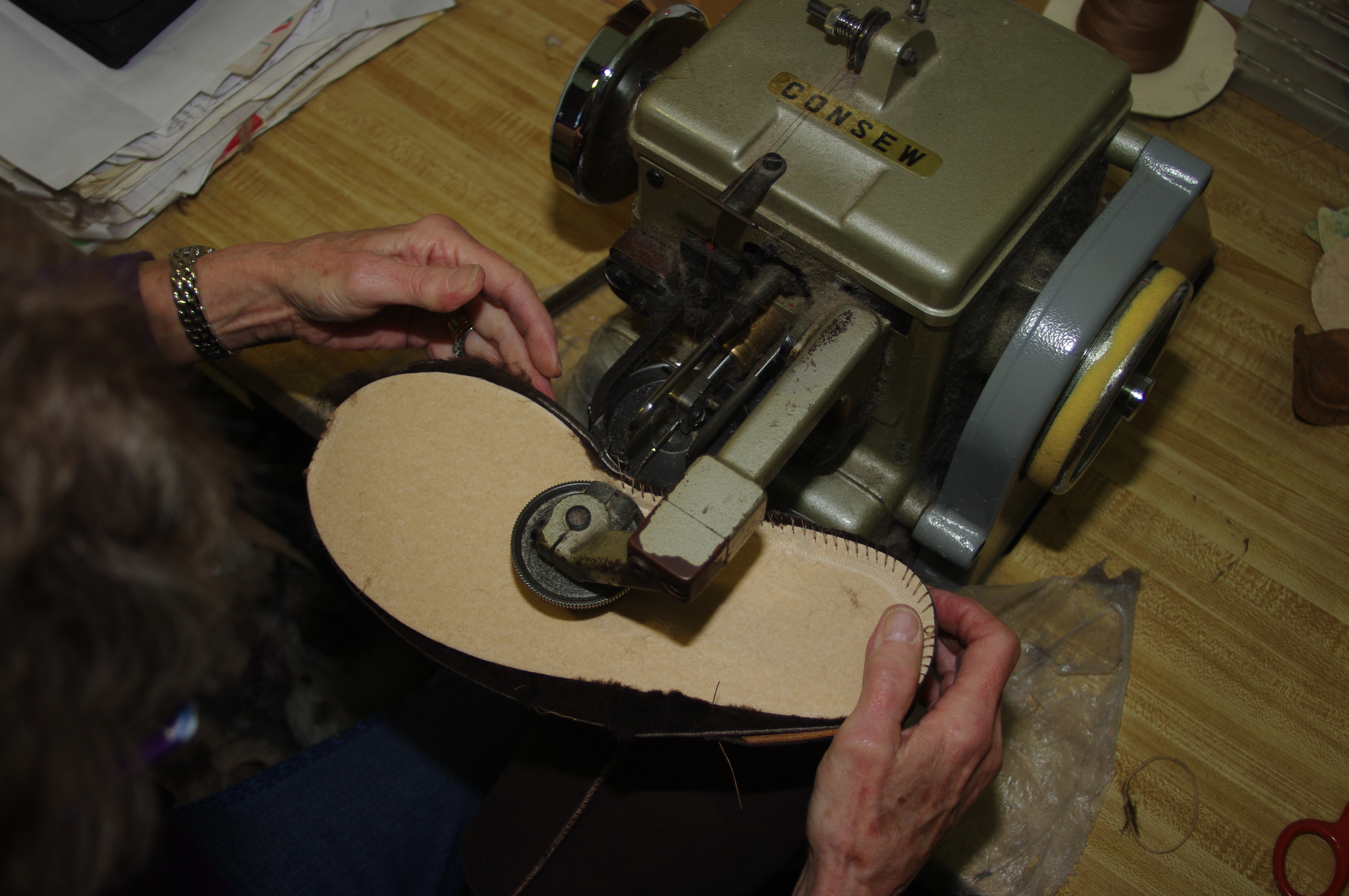 Uggs boots being manufactured in Australia at Uggs-N-Rugs sewing the innersole piece on